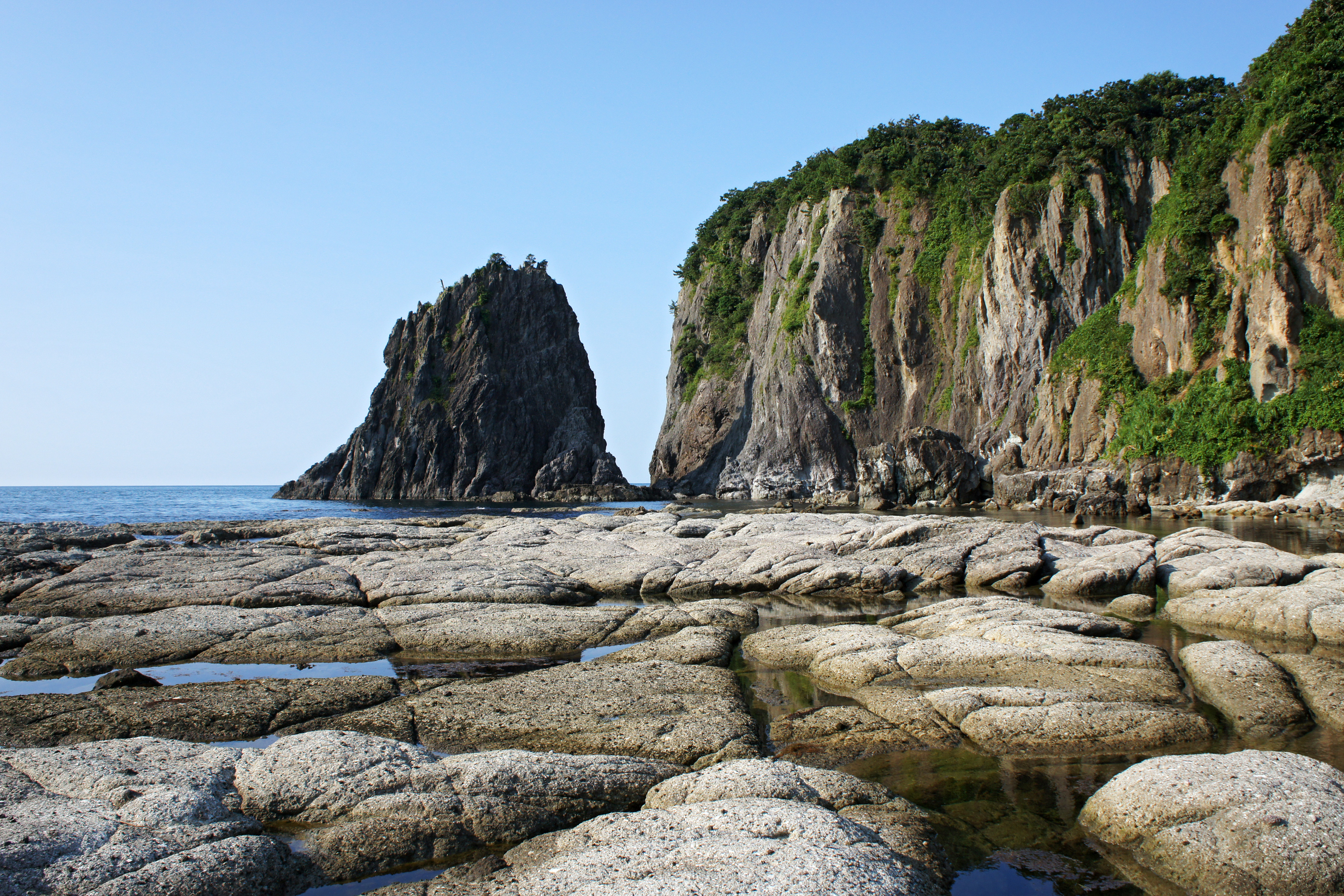 Imagoura of Kasumi Coast in Kami, Hyogo prefecture, Japan. It is a part of "San'in Coast Geopark" which joins in Global Geoparks Network.